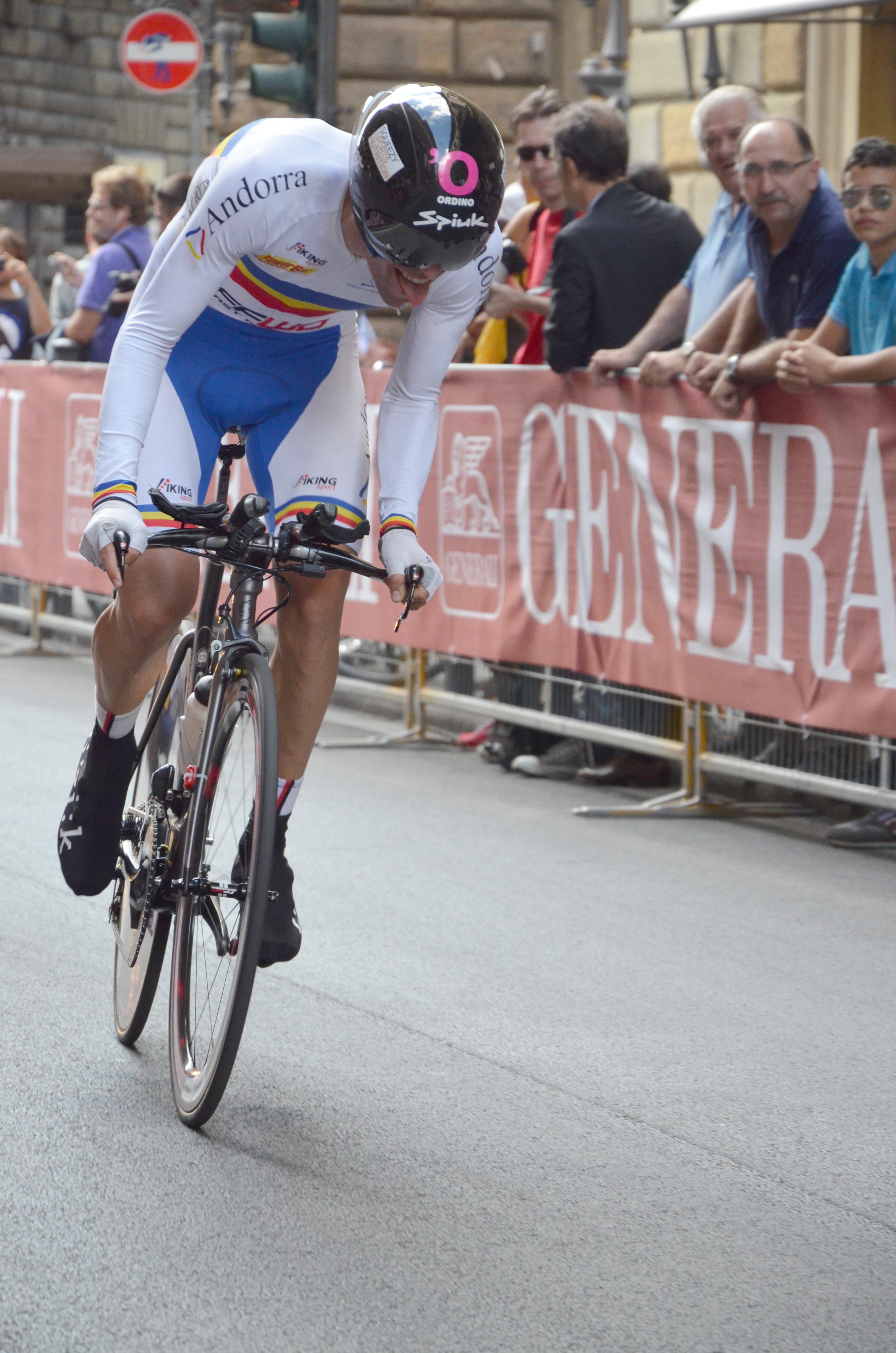 Albos Cavaliere David Uci Road World Championships Toscana Italy 2013 Florence